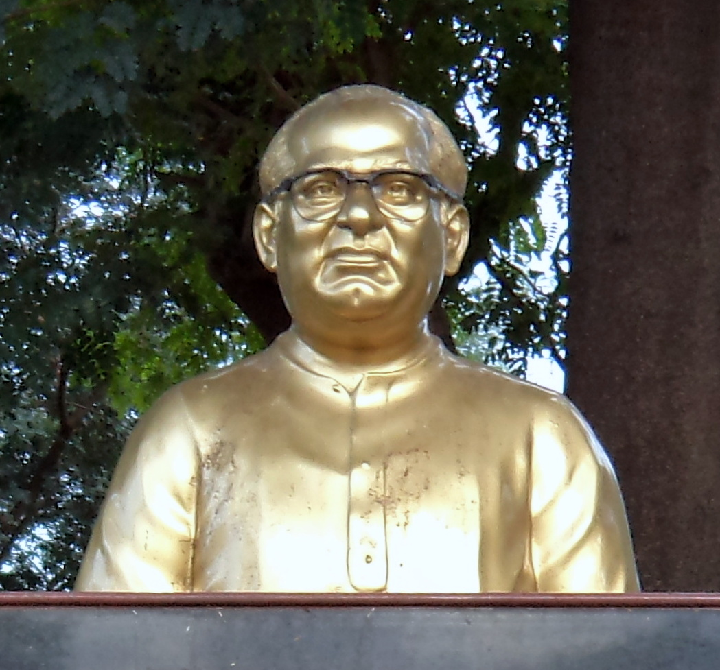 SV Ranga Rao (SVR), Tummalapalli Kshetrayya Kalakshetram Vijayawada